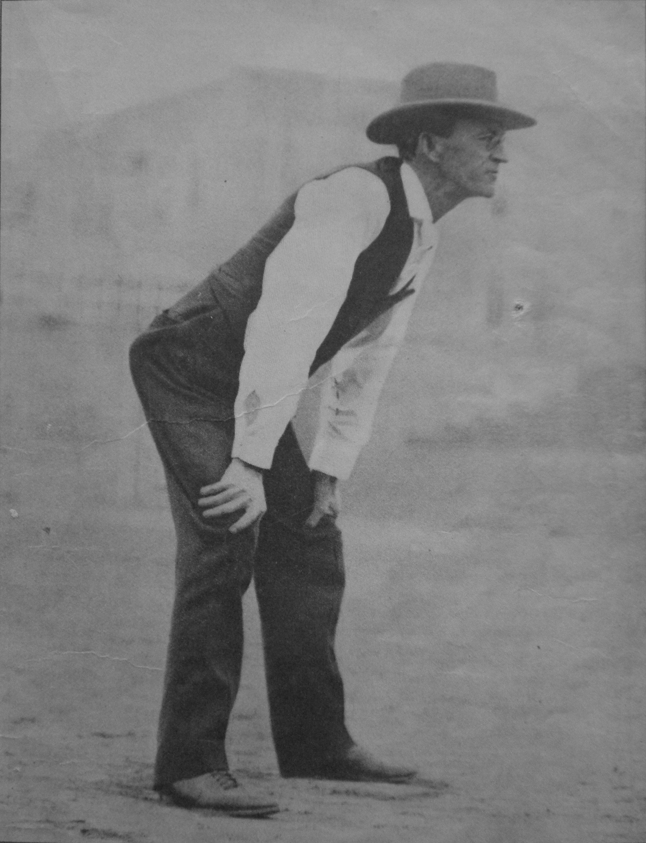 Seattle, Washington mayor Hiram Gill umpiring a baseball game.